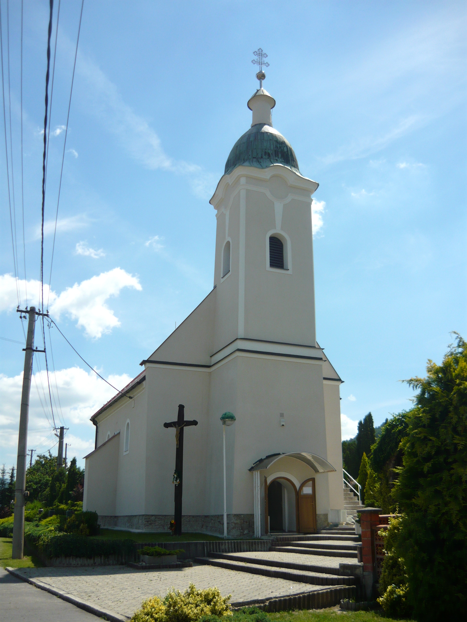 Church in Malé Uherce, Slovakia.